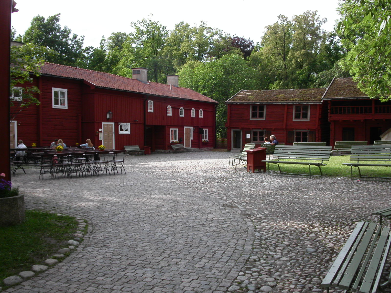 Örebro, Sweden, historic section of town, Wadköping